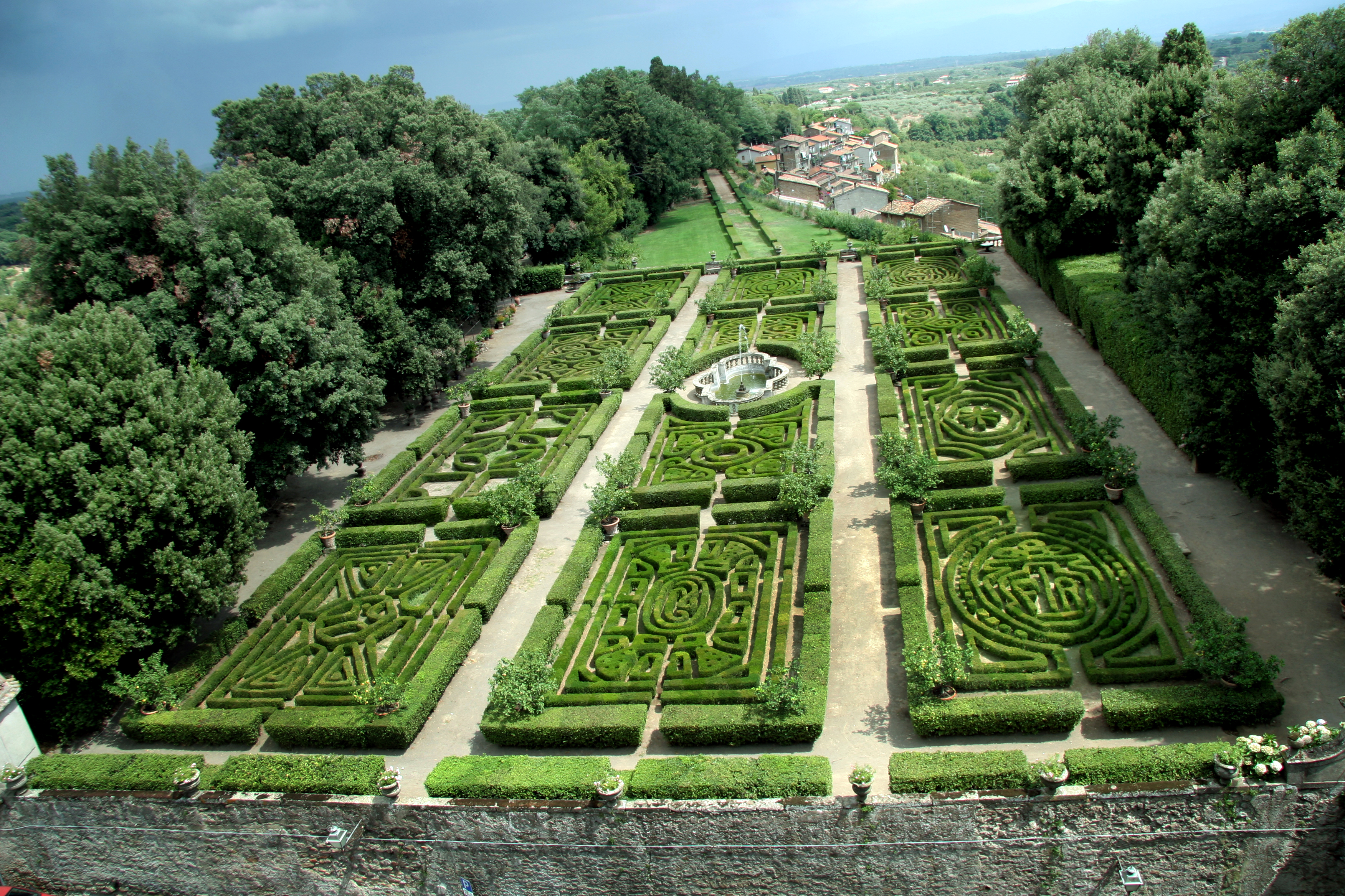 Photograph by Tao Ruspoli